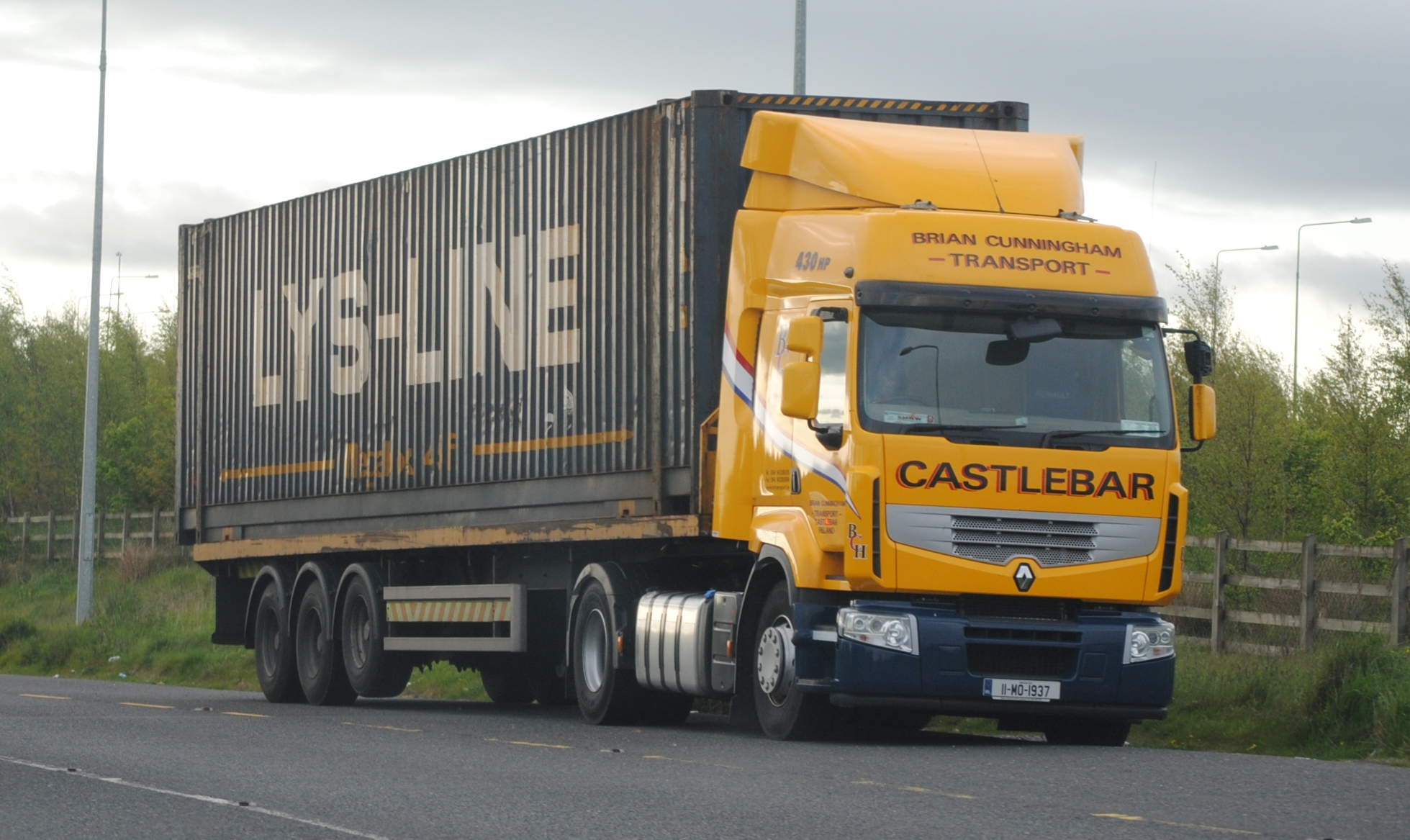 Brian Cunningham Transport - Castlebar - May 2012